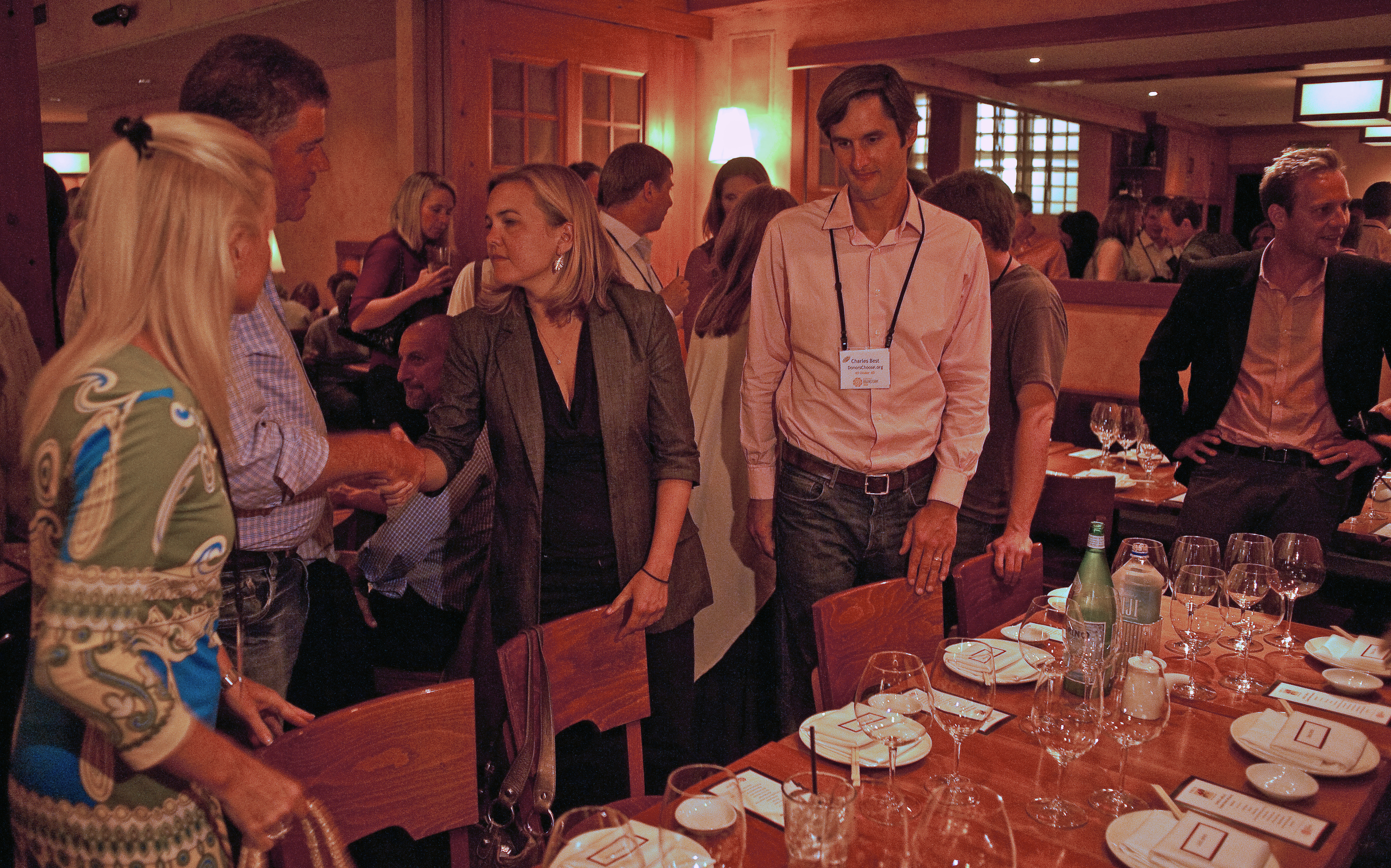 July 20th, 2011--Aspen, CO, USA The 40 under 40 dinner at Matsuhisa at Fortune Brainstorm TECH. Photograph by Kevin Moloney/Fortune Brainstorm TECH